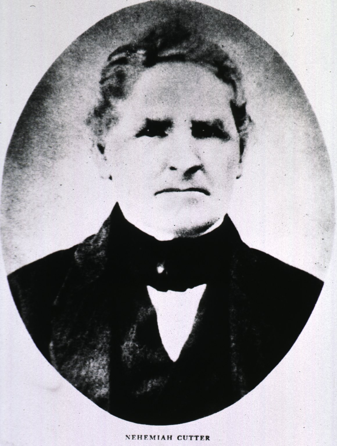 Nehemiah Cutter (1787-1859)